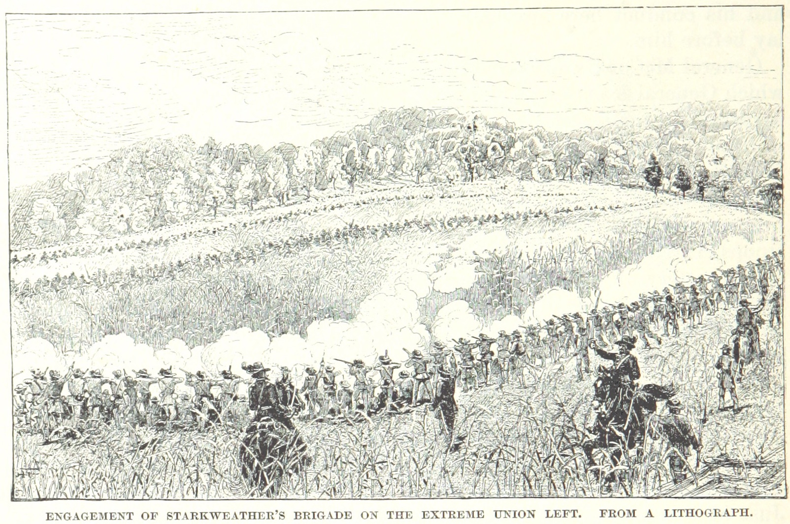 Starkweather's brigade fights in a cornfield on the extreme left of the Union forces at the Battle of Perryville.